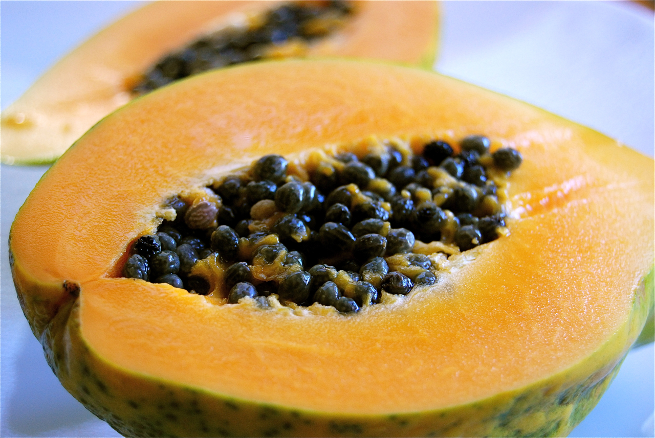 chilled, fresh papaya w/ a squeeze of lemon